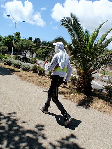 Alain Grassi walking the Antibes 6 days walking race in 2011